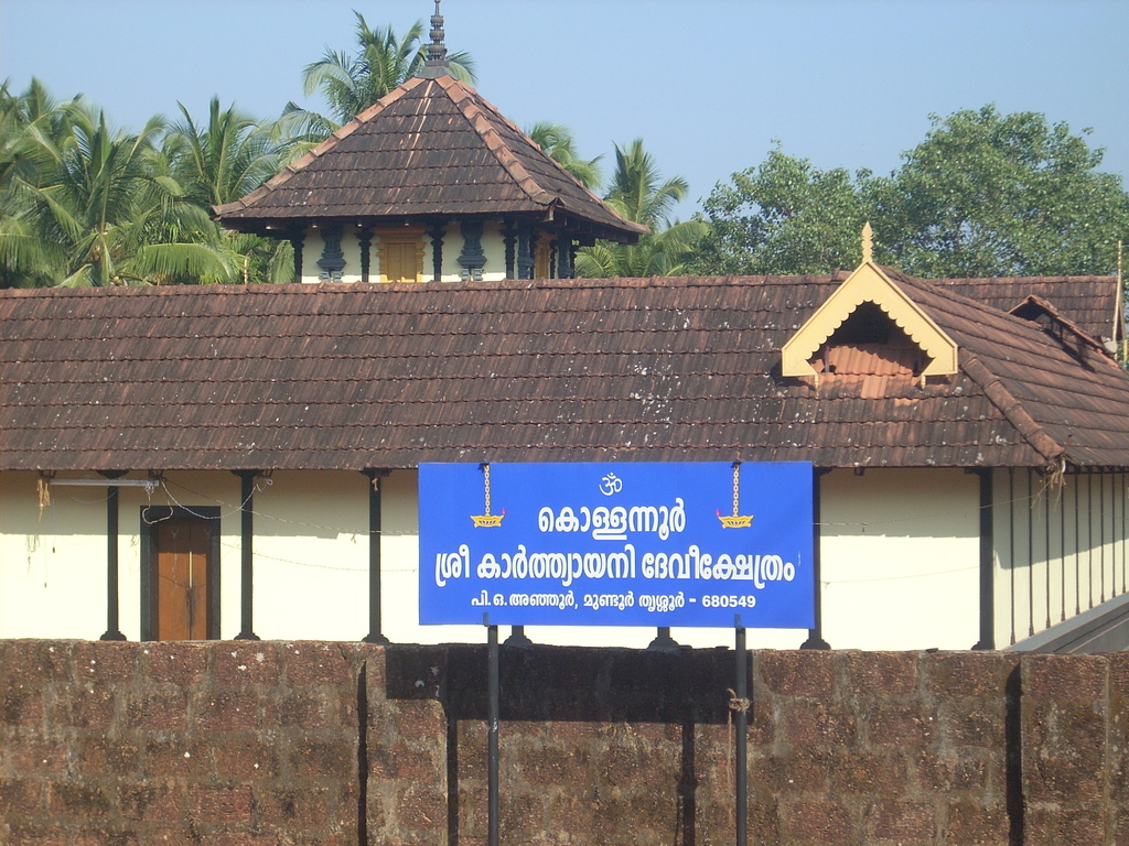 The image of the temple showing the name board. Many members of the Family visits here during the festival.